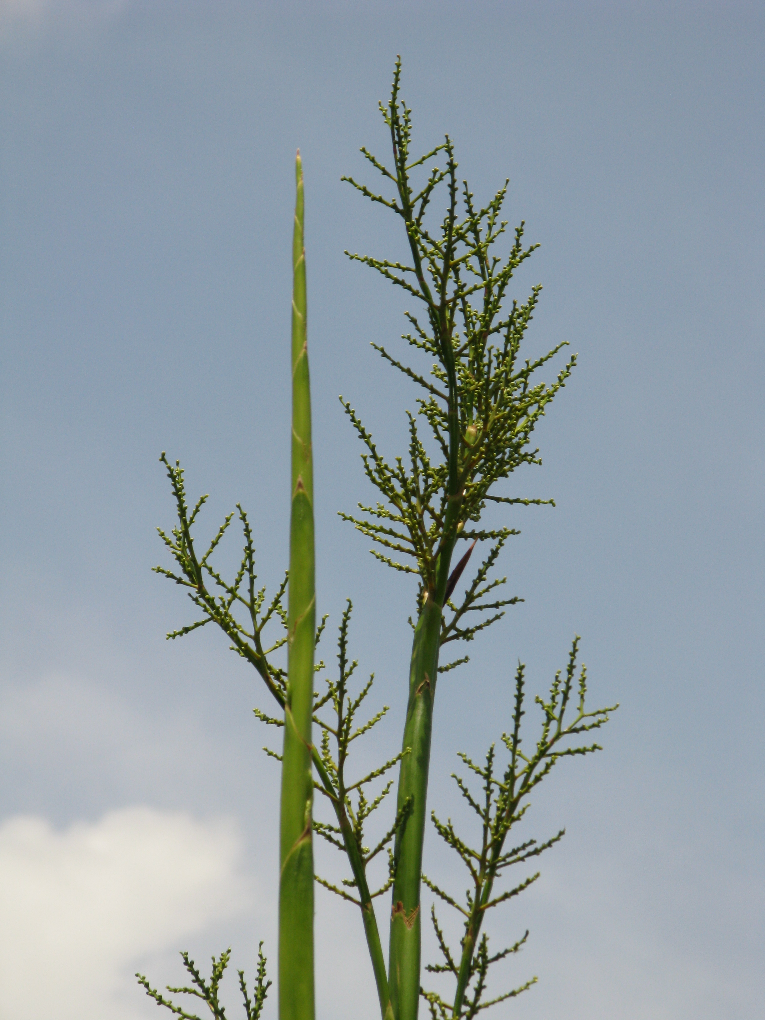 Scientific name Sabal minor Place:Osaka,Japan